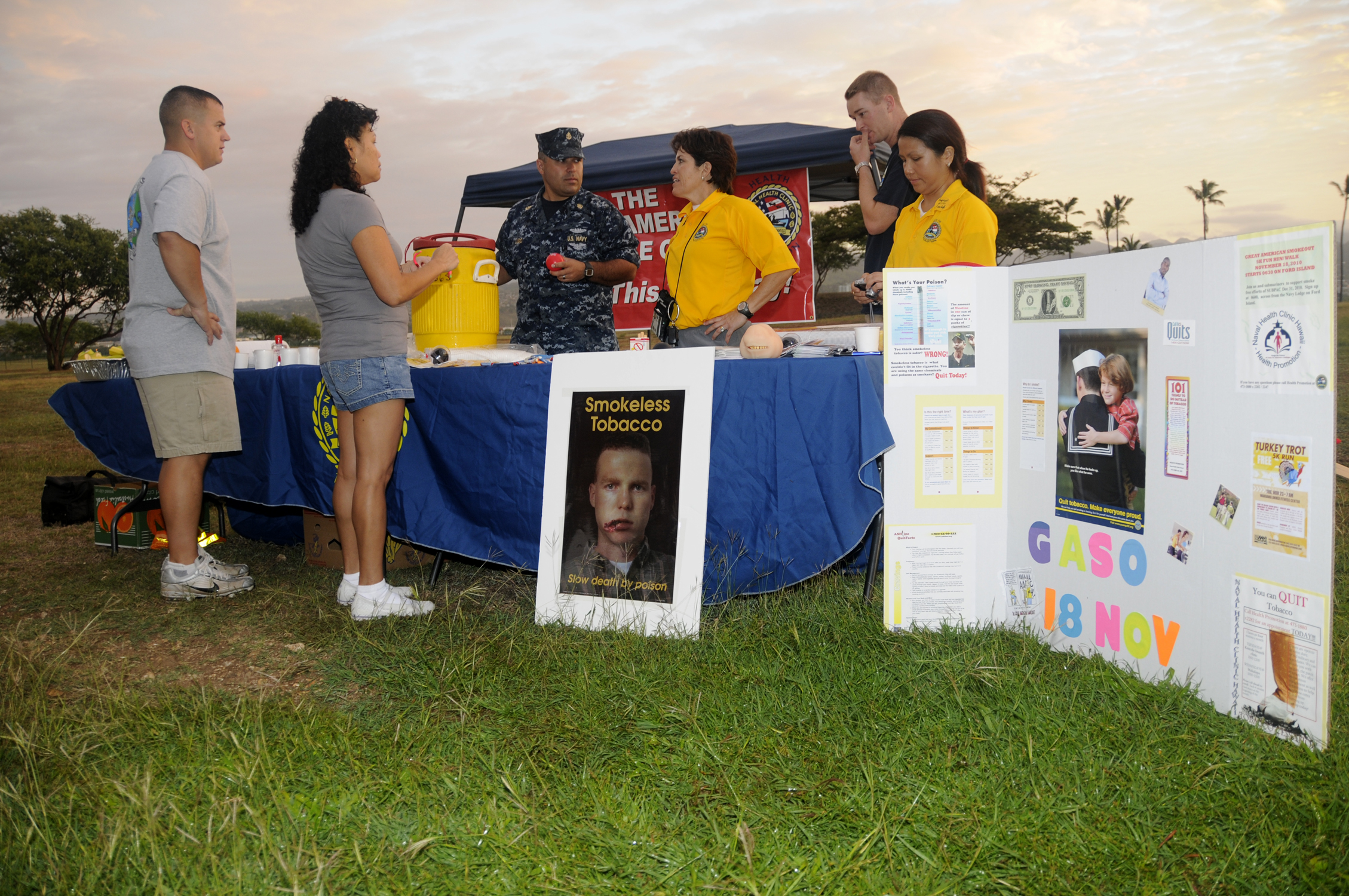 FORD ISLAND, Hawaii (Nov. 18, 2010) Tracy Navarrete, center, the Health Promotions Officer at Naval Health Clinic, Hawaii, educates service members on the dangers of smoking and tobacco use during the Great American Smokeout. The smokeout is an annual initiative sponsored by the American Cancer Society to encourage smokers to quit. (U.S. Navy photo by Mass Communication Specialist 2nd Class Ronald Gutridge/Released)